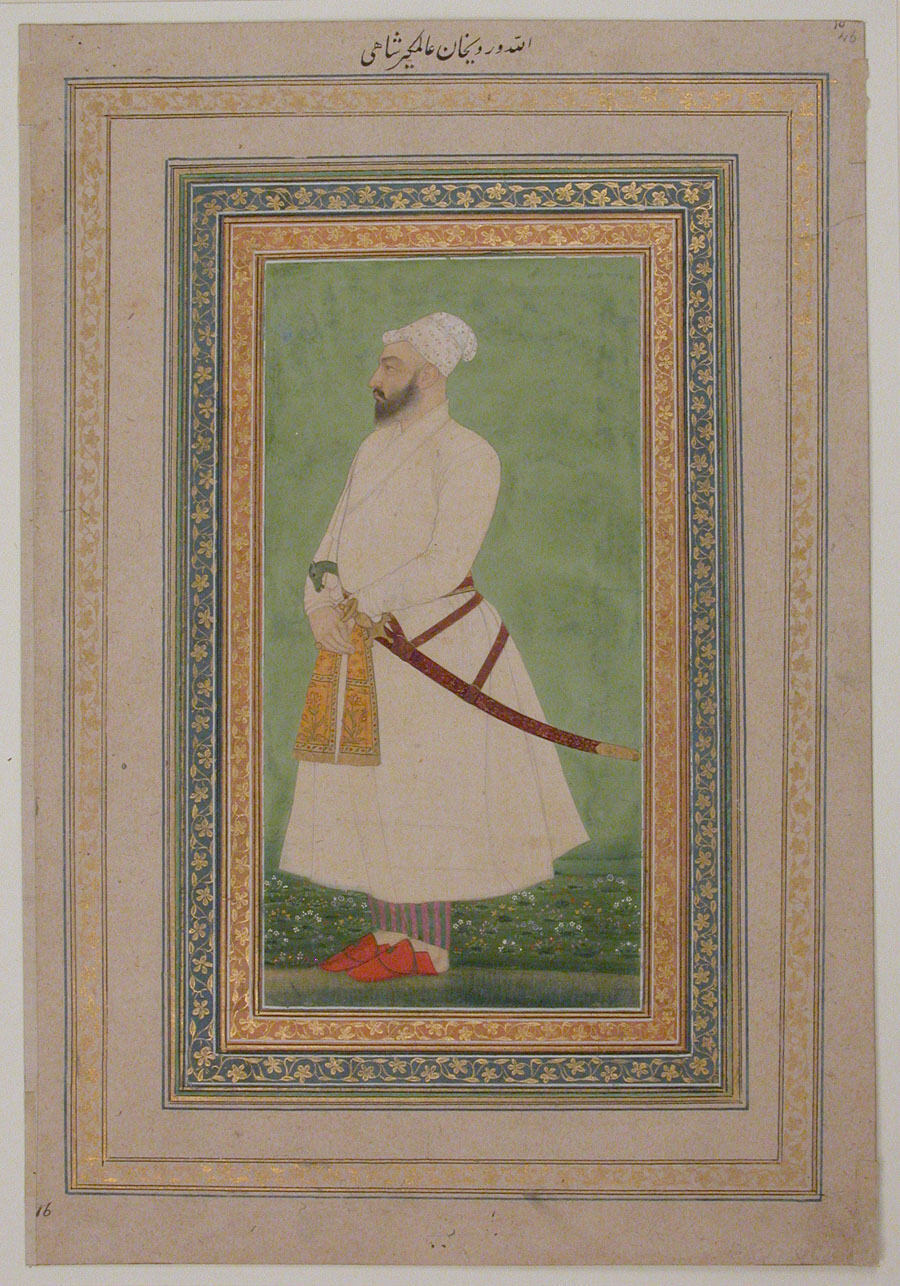 Portrait of Allahwerdi Khan Object Name: Album leaf Date: 17th century Geography: India Culture: Islamic Medium: Ink, opaque watercolor, and gold on paper Dimensions: H. 7 3/16 in. (18.3 cm) W. 3 5/8 in. (9.2 cm) Classification: Codices Credit Line: Bequest of George D. Pratt, 1935 Accession Number: 45.174.10 This artwork is not on display